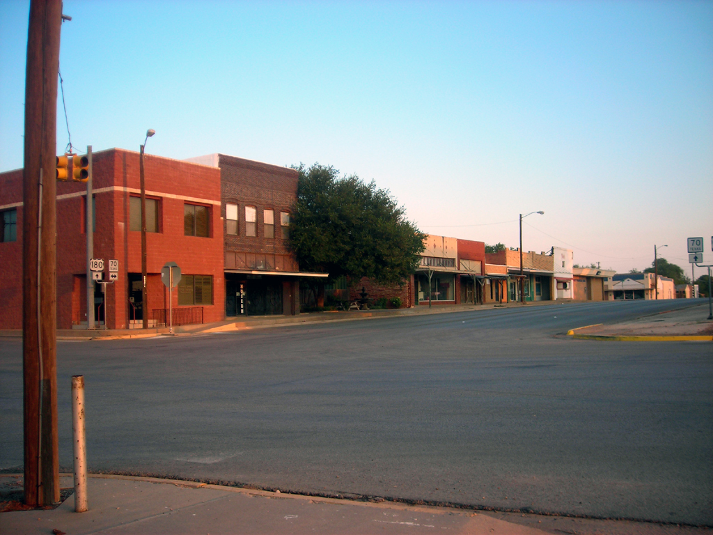 Businesses along Texas State Highway 70 in downtown Roby.